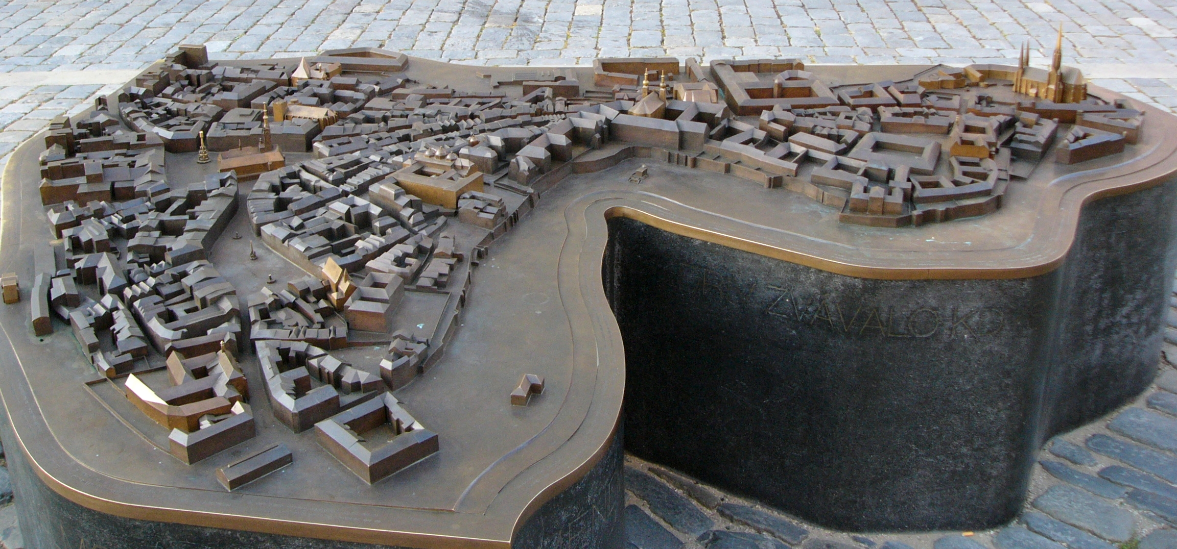 Model of centre of Olomouc (Czech Republic).